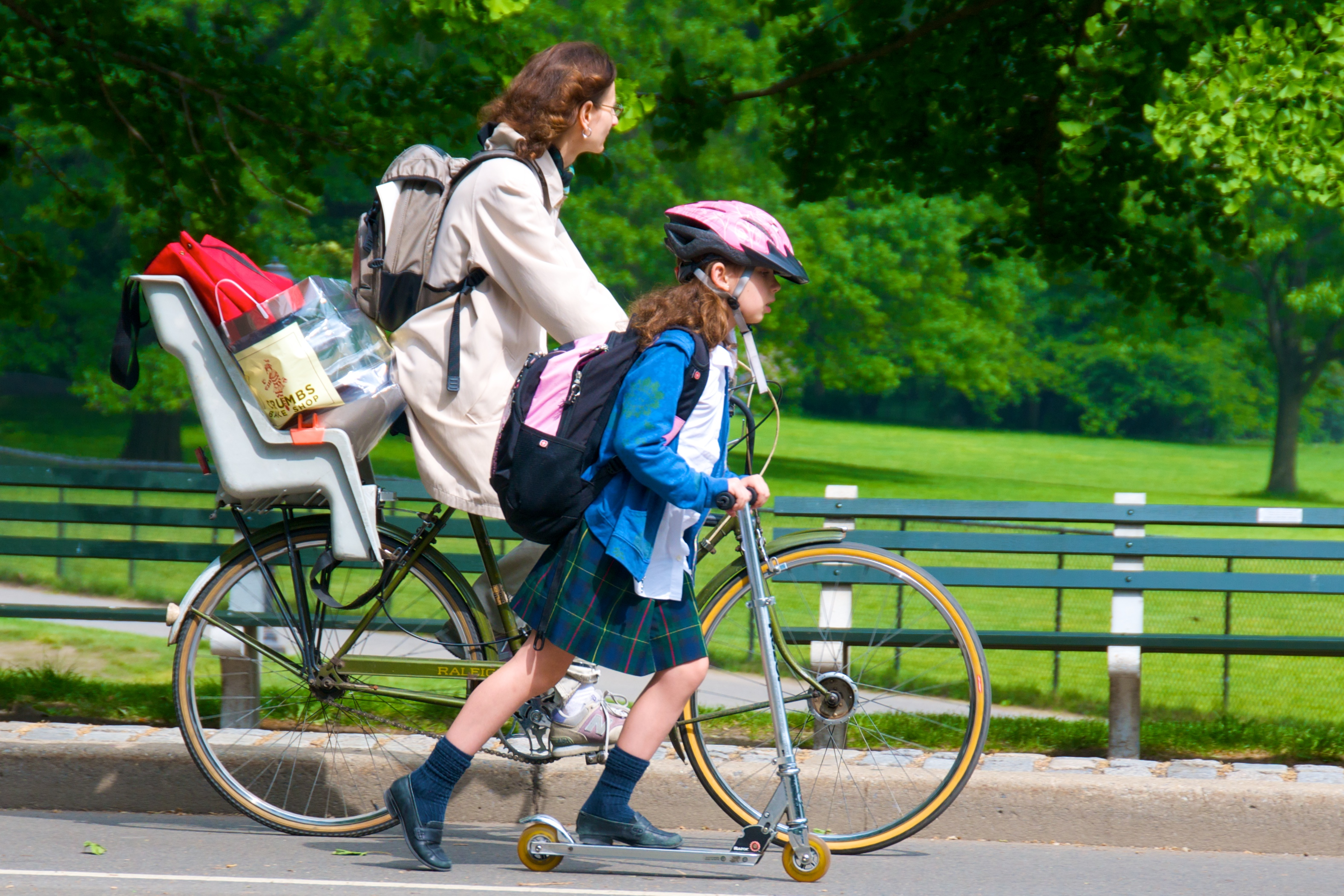 Razor New A and a bicycle